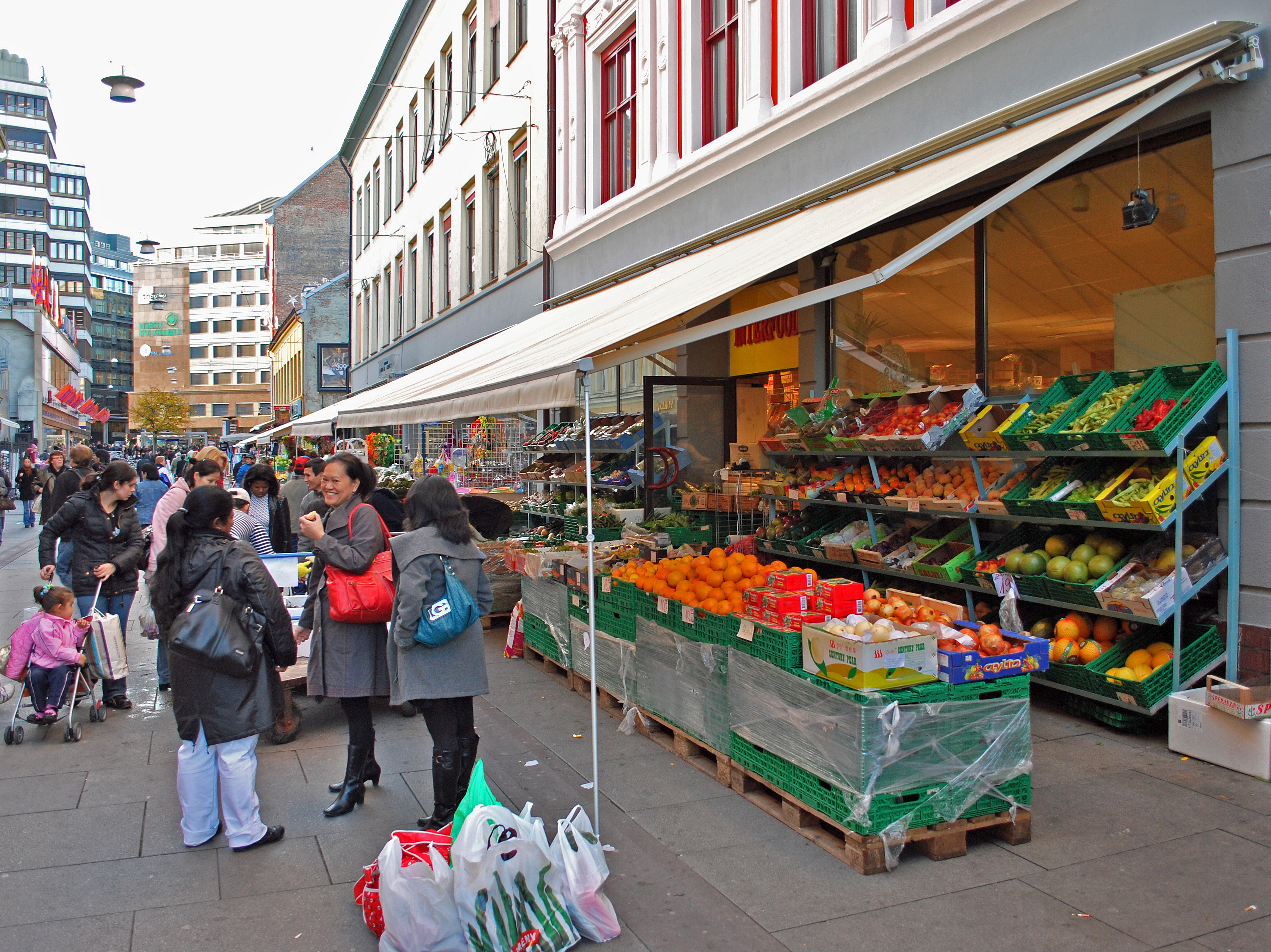 Brugata, old shopping street in inner east end of Oslo